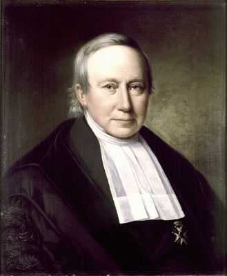 Portrait of Professor Bernard ter Haar